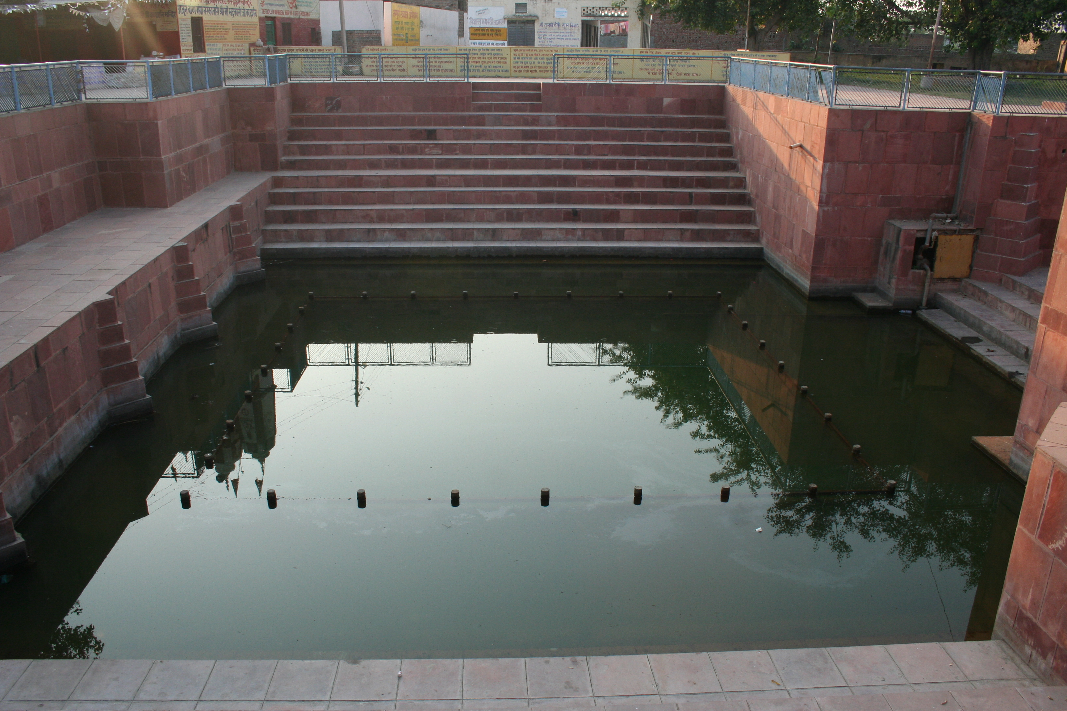 The kund believed to be created by Arjun's arrow to quench the thirst of Bheeshma while he lay on the bed of arrows